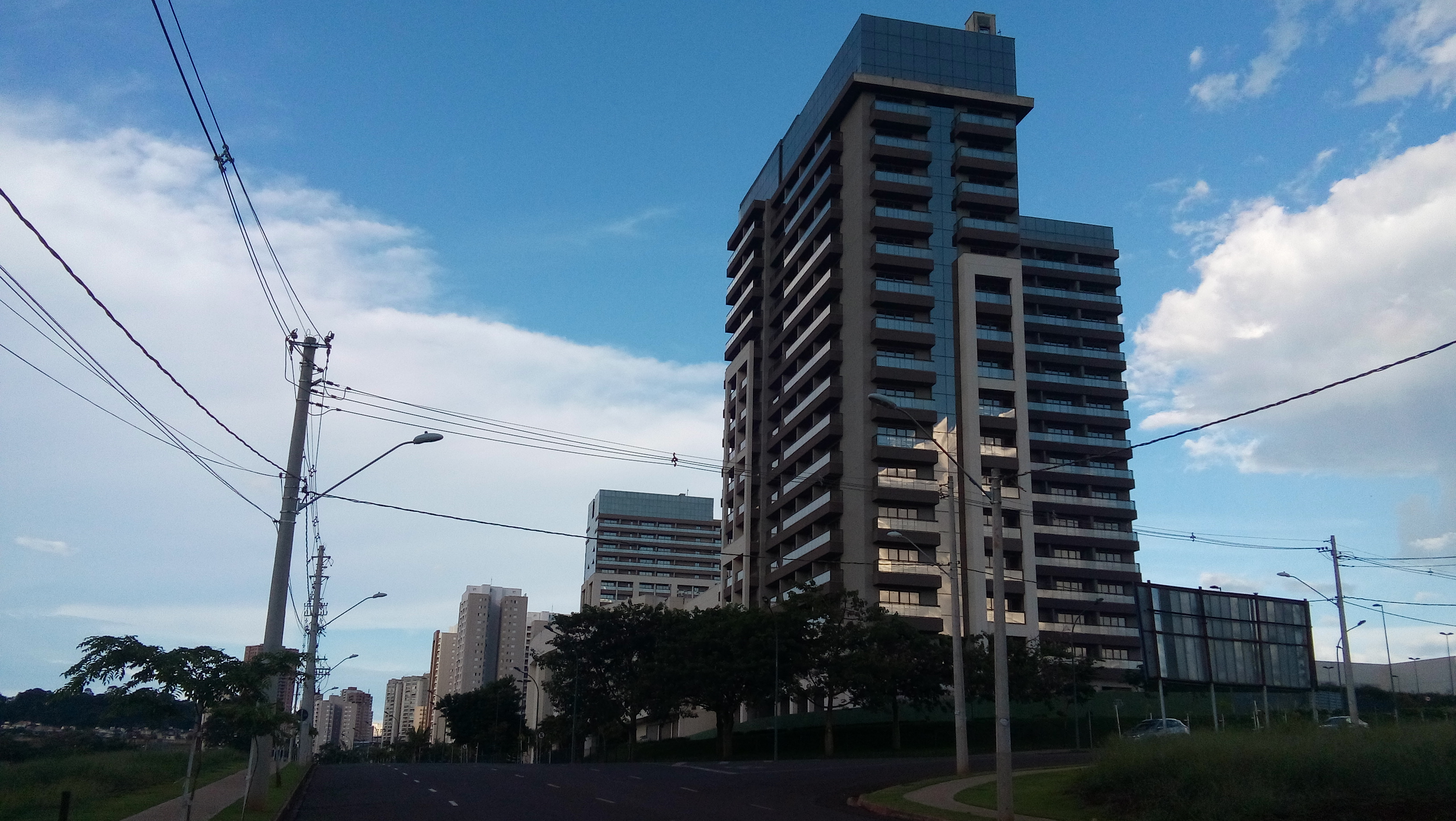 Expansion of the Urban Area of Ribeirão Preto, through the neighborhood of Nova Aliança Sul and Ypê Golf Club.